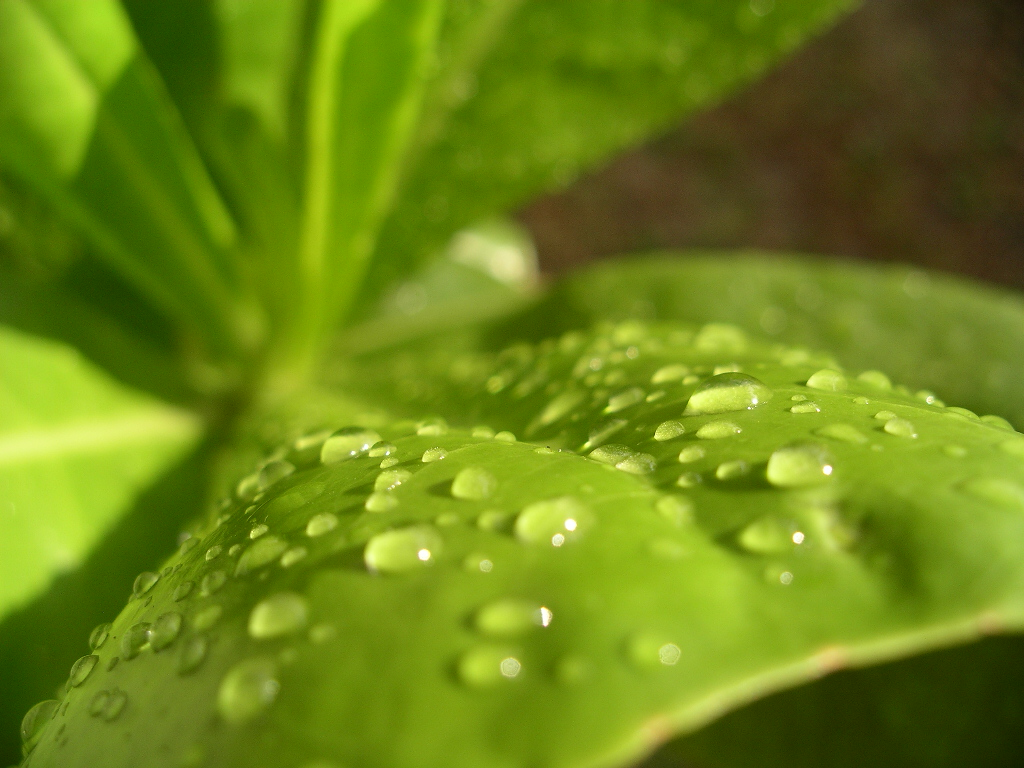 Example of a narrow 'depth of field' in a photograph. This photo was taken by K.K.Kong @ Redang Island, Malaysia